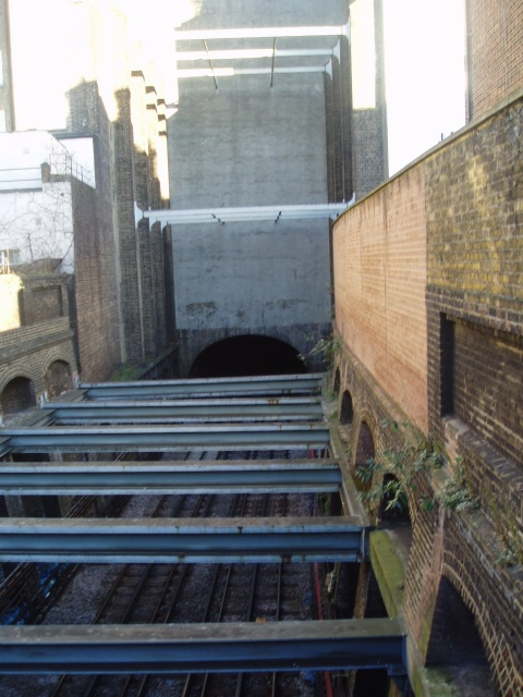 Behind 23/24 Leinster Gardens. Looking over the wall behind 23/24 Leinster Gardens reveals that there's no building there, just a facade to disguise the fact that the circle line surfaces at this point. Cut and cover lines such as these needed to surface occasionally as the lines started out life being steam powered and the steam regularly needed to vent out of the engine.